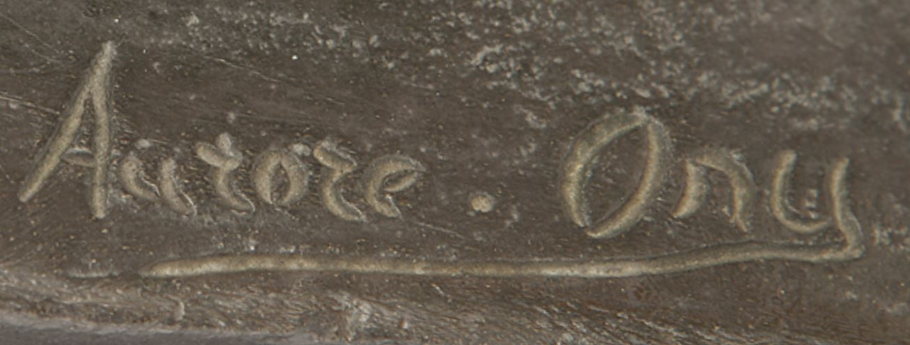 Signature of Aurore Onu